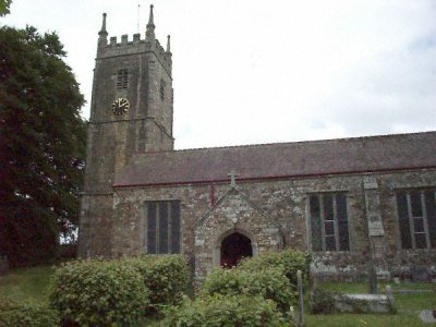 Black Torrington Church. Another Devon location where my BLIGHT ancestors came from.